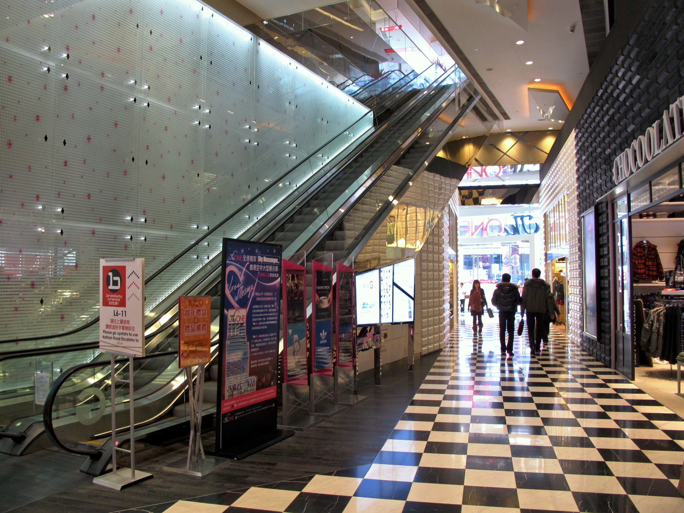 TheONE GB Level Escalator 位於GB層的跨層扶手電梯